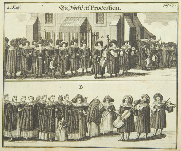 Illustration from Juedisches Ceremoniel, a German book published in Nürnberg in 1724 by Peter Conrad Monath. The book is a beautifully illustrated description of Jewish religious ceremonies, rites of passage and feast days, which first appeared in 1716, here in its second edition of 1724. The extremely detailed plates, by Georg Puschner, depict priestly robes, the celebrations of the New Year, Passover, the weekly Sabbath, circumcision, presentation of the first born, prayer at the synagogue, a wedding procession and a wedding, purification of the bride, the washing of the brother-in-law's feet, the feast of reconciliation, death rites, burials, as well as the procedures for other Jewish customs.